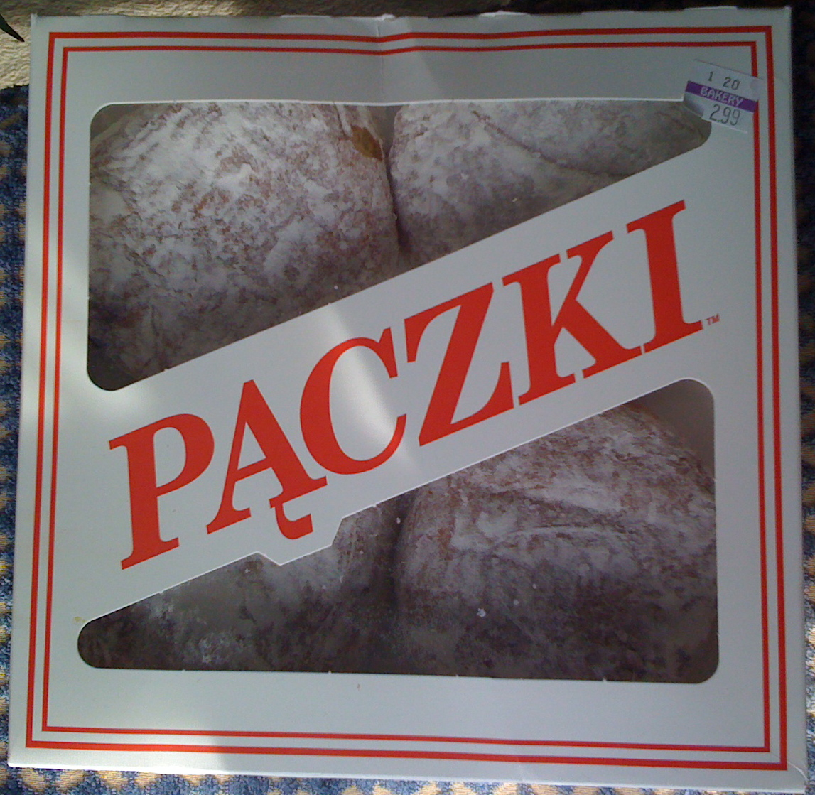 Pączki - A packaging box with four Polish-type paczki (a jelly filled dough ball), made in the USA (by Herbert A. Holinko).